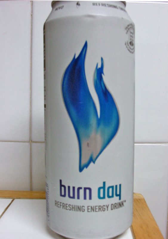 A Burn Day can